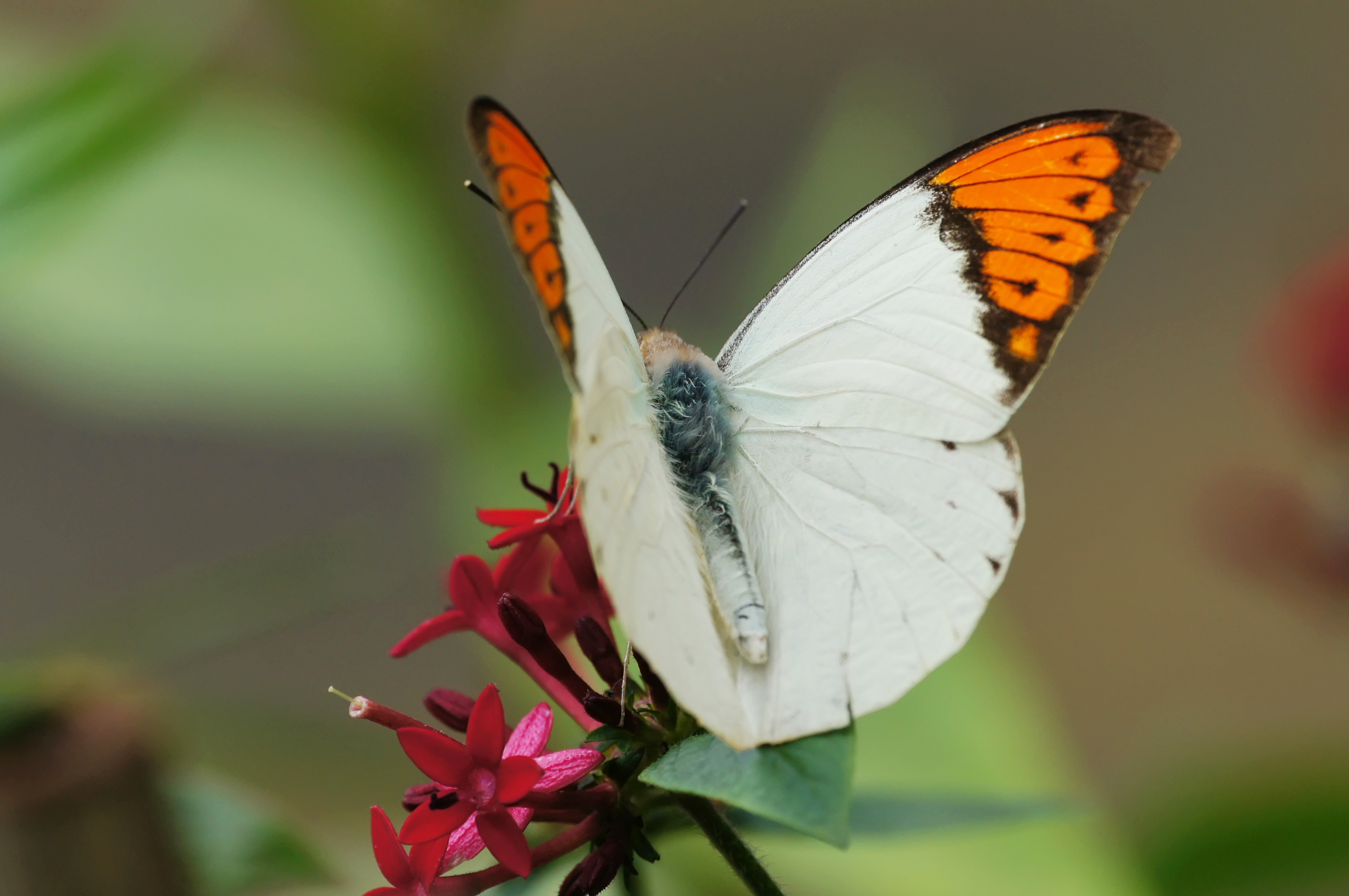 橙端粉蝶 Hebomoia glaucippe formosana